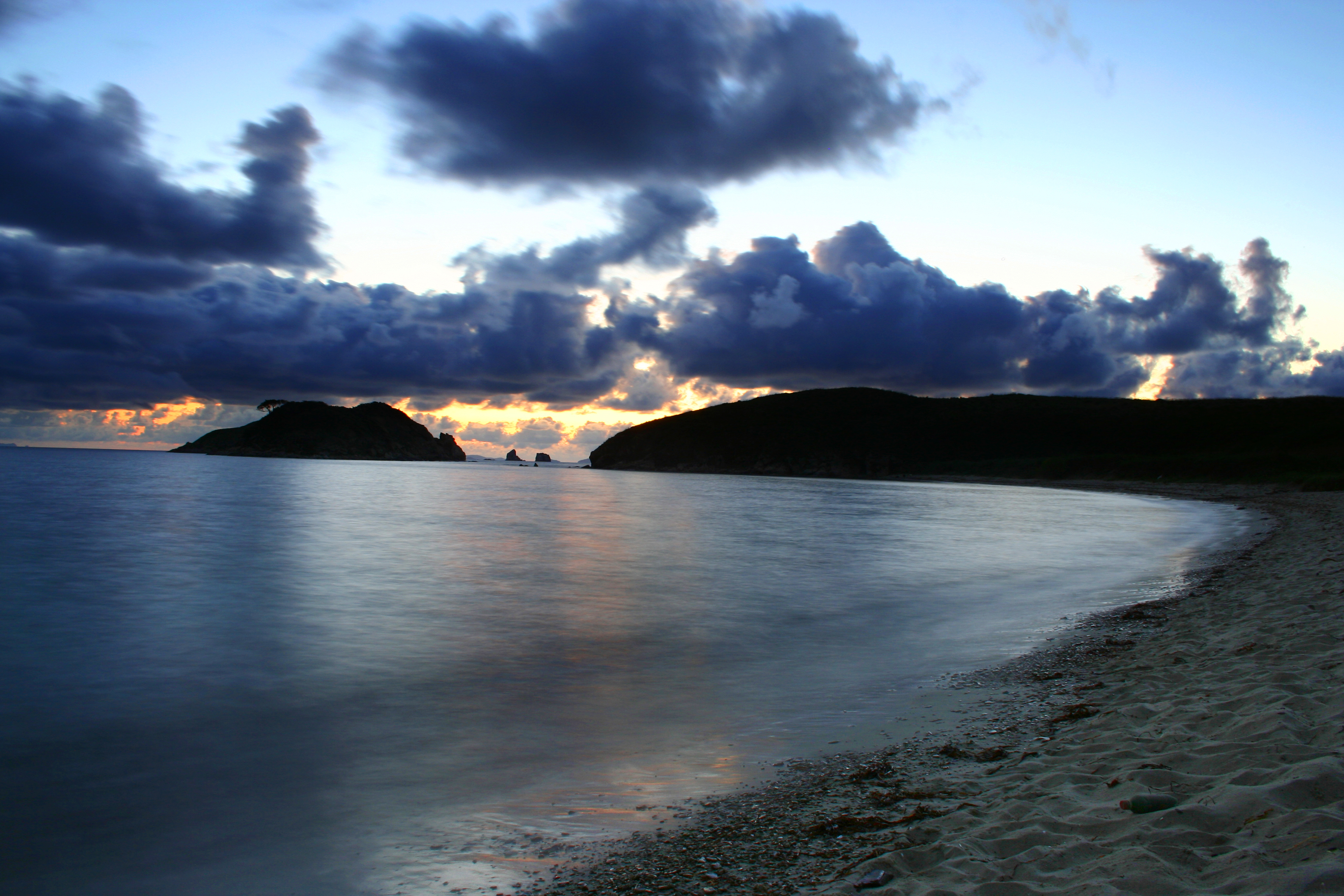 Far Eastern Marine National Reserve